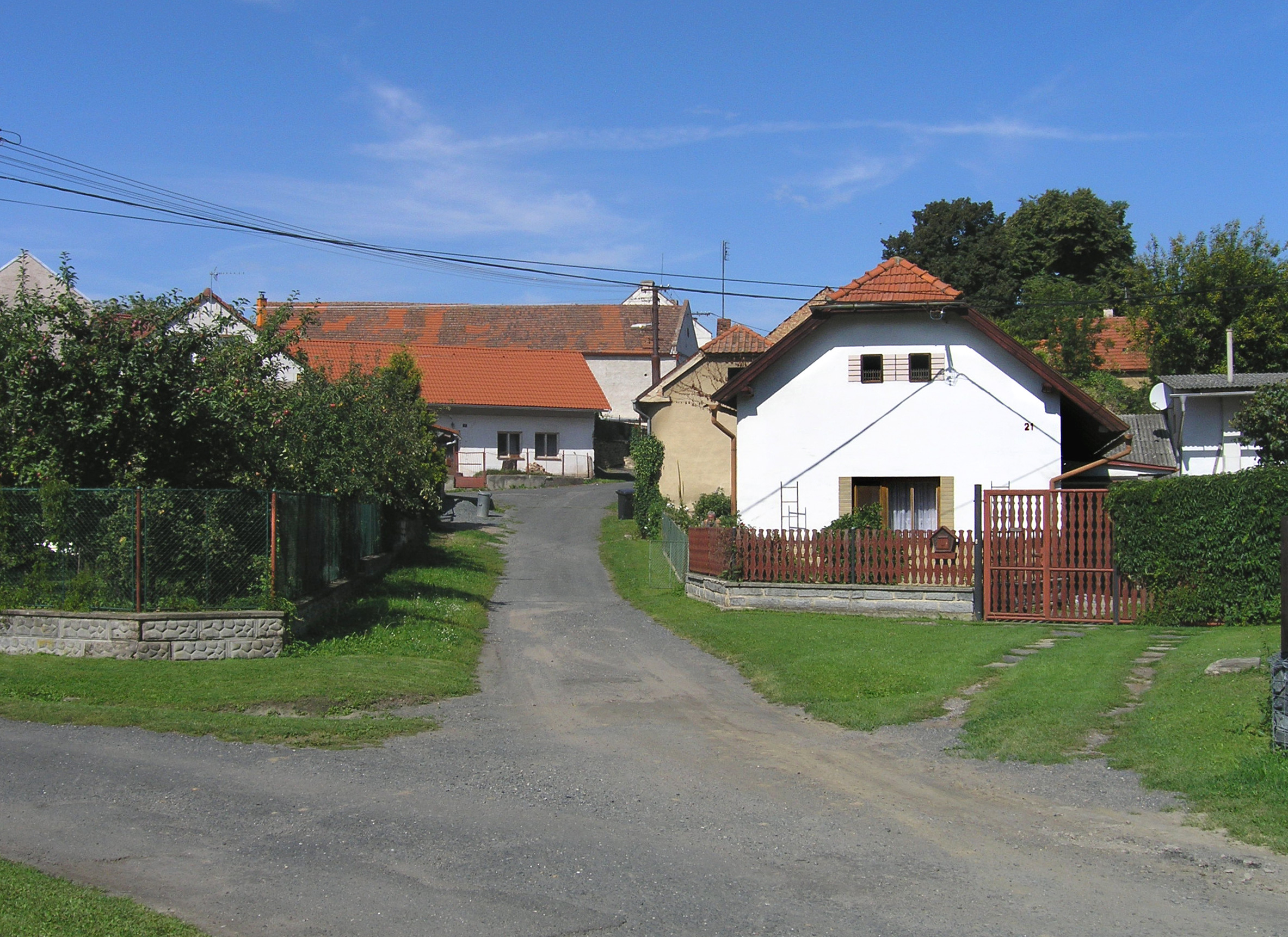 Middle part of Mlékovice, part of Toušice village, Czech Republic